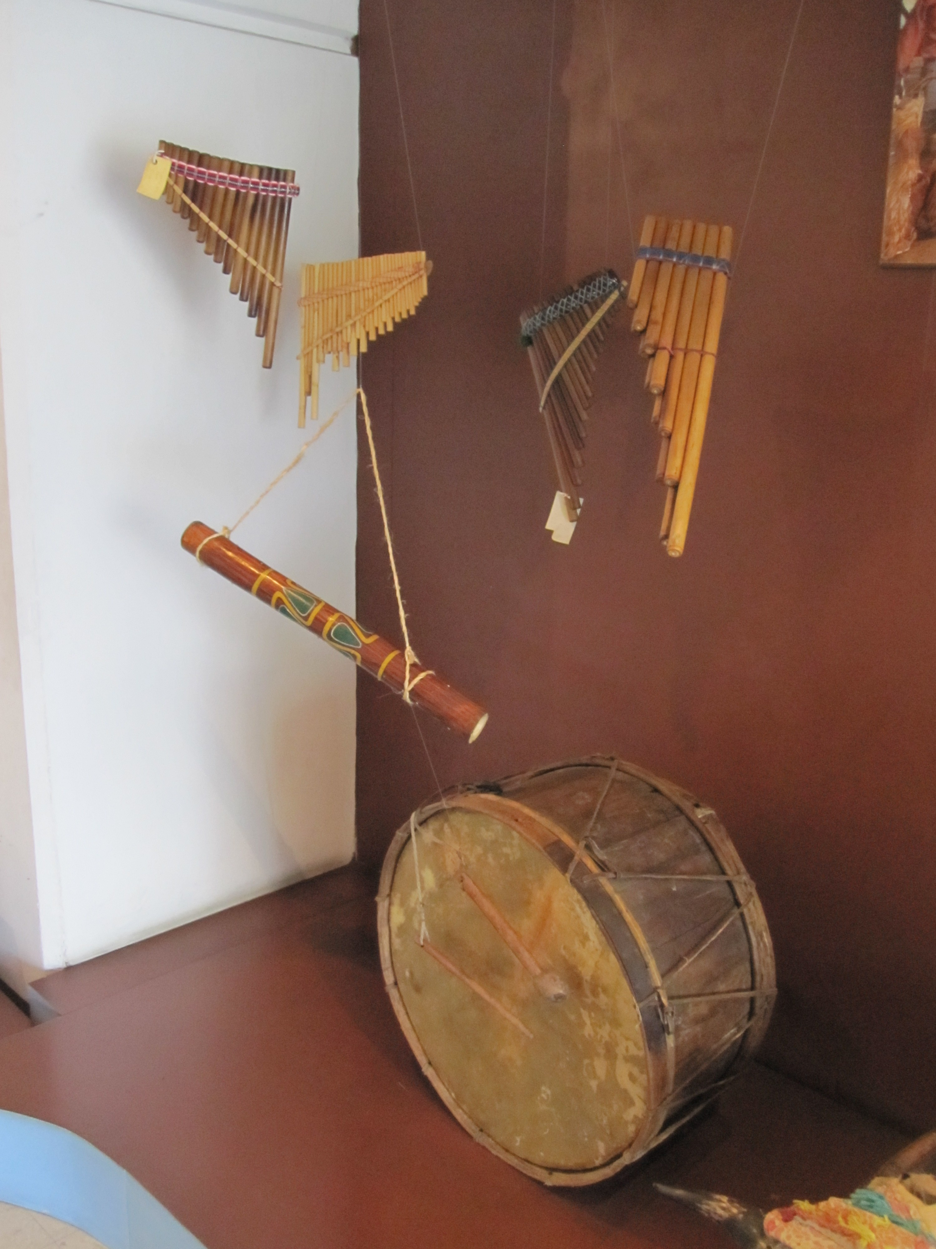 Instruments from Ecuador's northern highlands